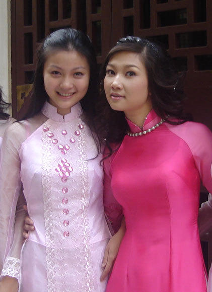 Two young girls in áo dài.